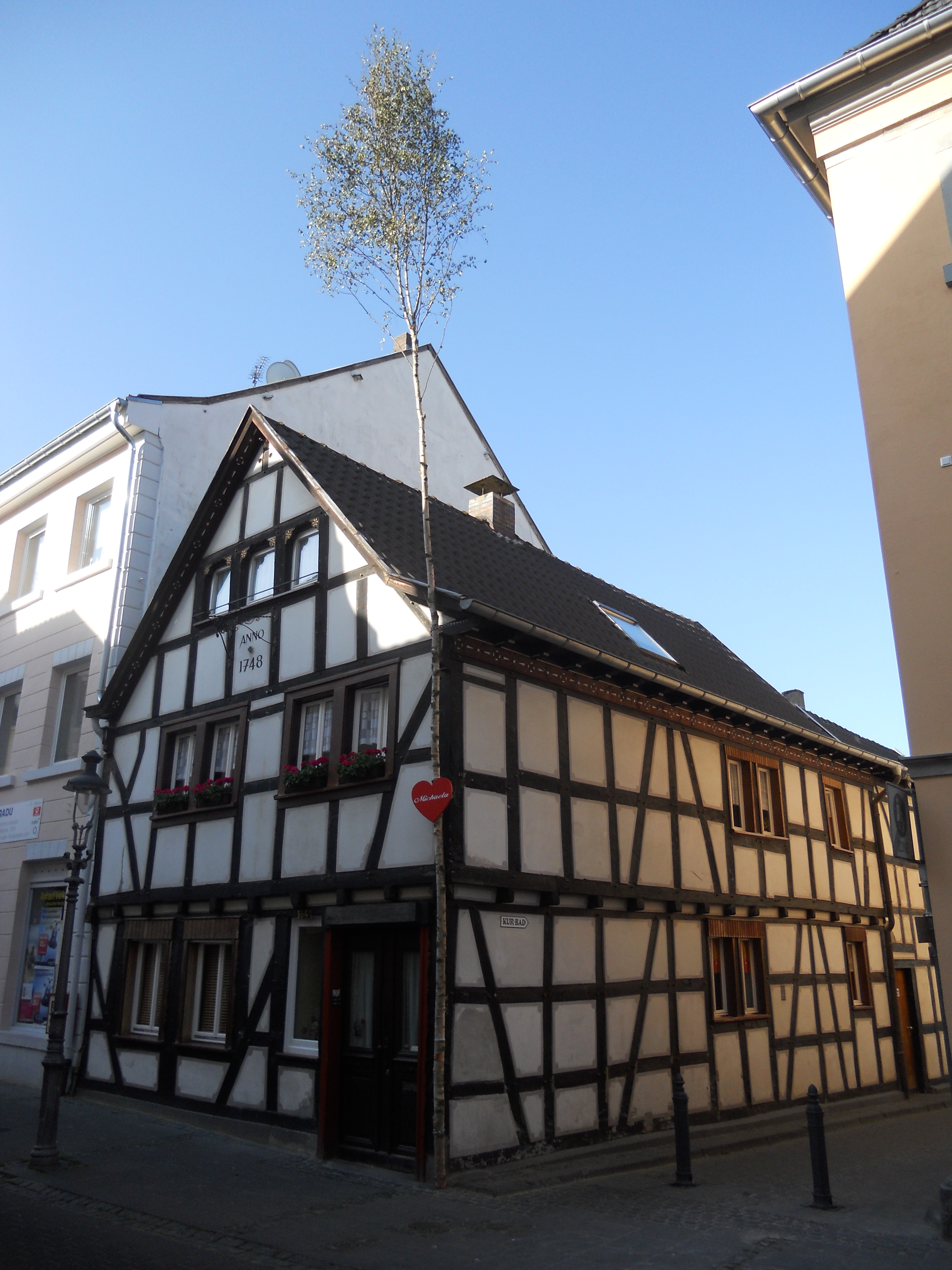 Timber framed house with Maibaum in Königswinter